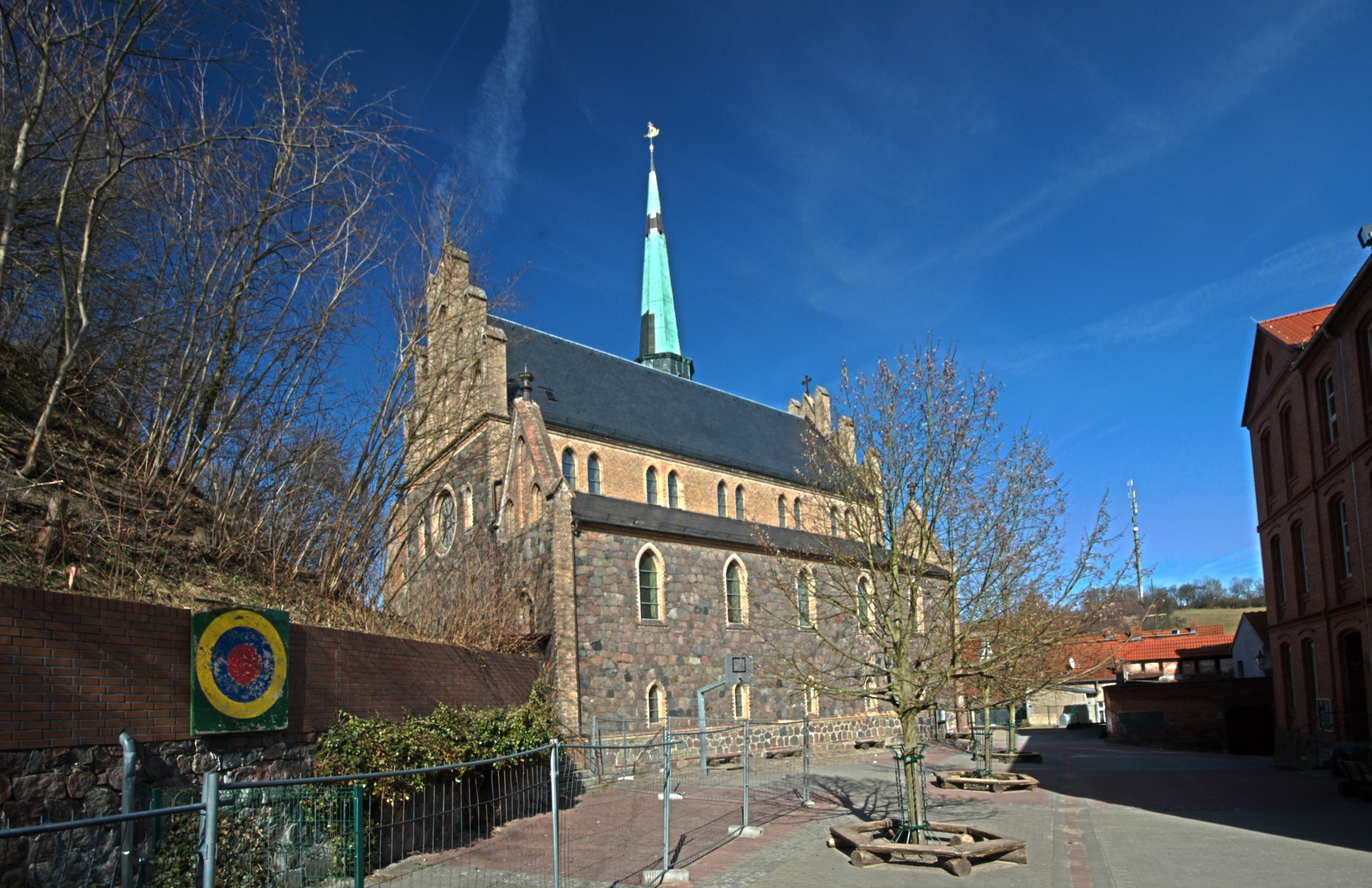 Church of Oderberg, Barnim district, Brandenburg state, Germany